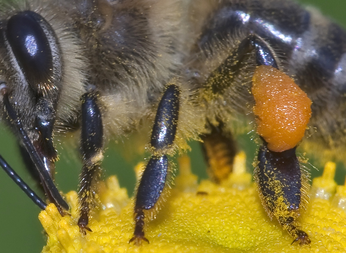 Western honey bee, Detail